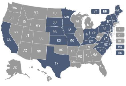 Blue: birth states of Vice Presidents of the United States